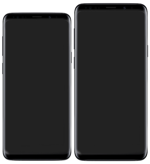 Samsung Galaxy S9 and S9+ render